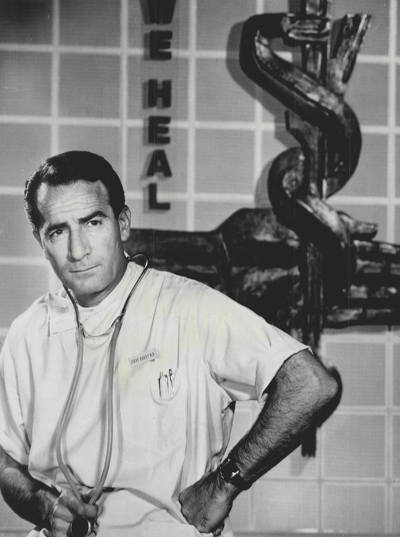 Photo of John Beradino as Dr. Steve Hardy from the daytime drama General Hospital.